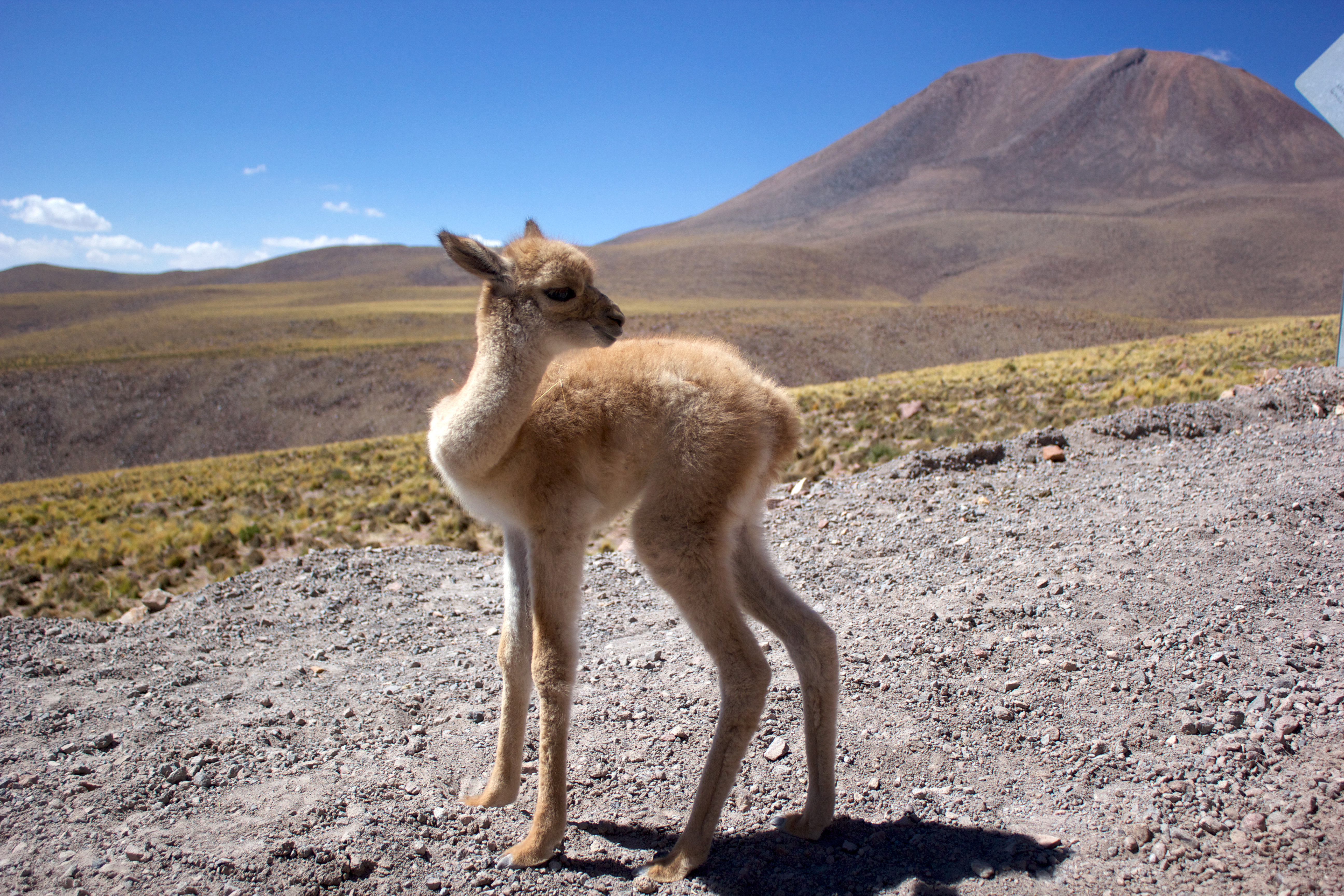 Vicuña fawn, found on 16 February 2014 by ALMA workers.